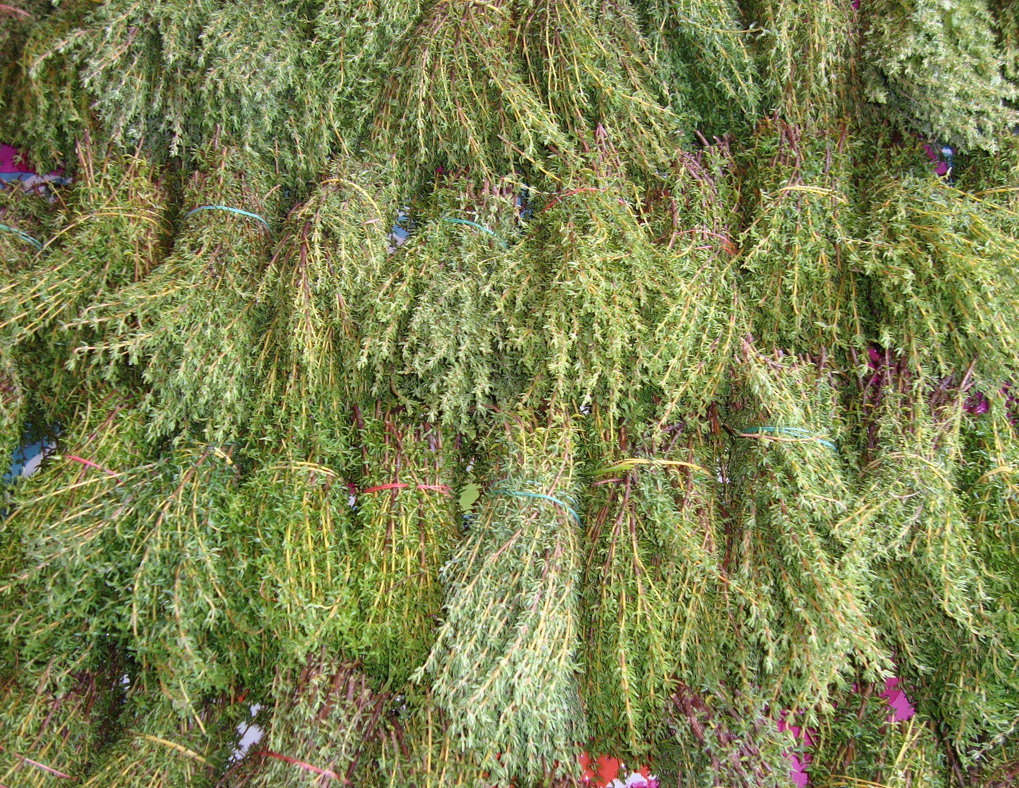 Branches of thymus for sale on a market